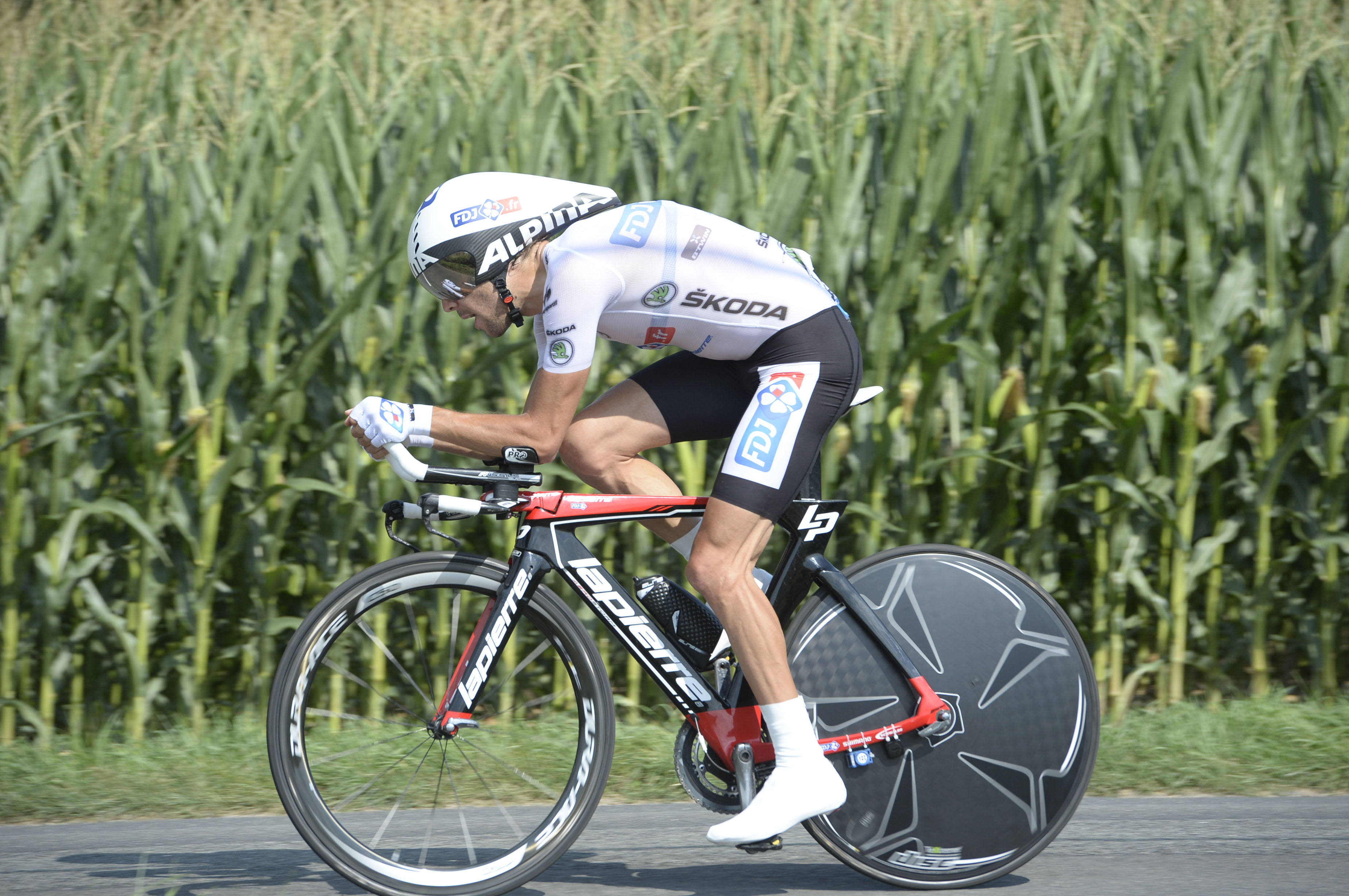 2014 Tour de France FDJ.fr Pinot Thibaut